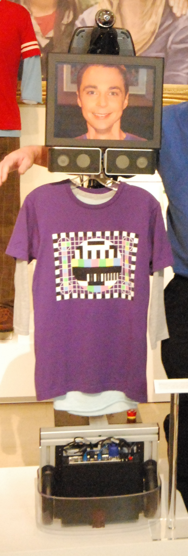 The robotic Sheldon Cooper from the Big Bang Theory episode The Cruciferous Vegetable Amplification displayed at the Paley Center for Media, 465 N Beverly Drive in Beverly Hills, Los Angeles, CA